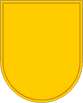 ancient arms of the portuguese Meneses family. Linked by Armoriale